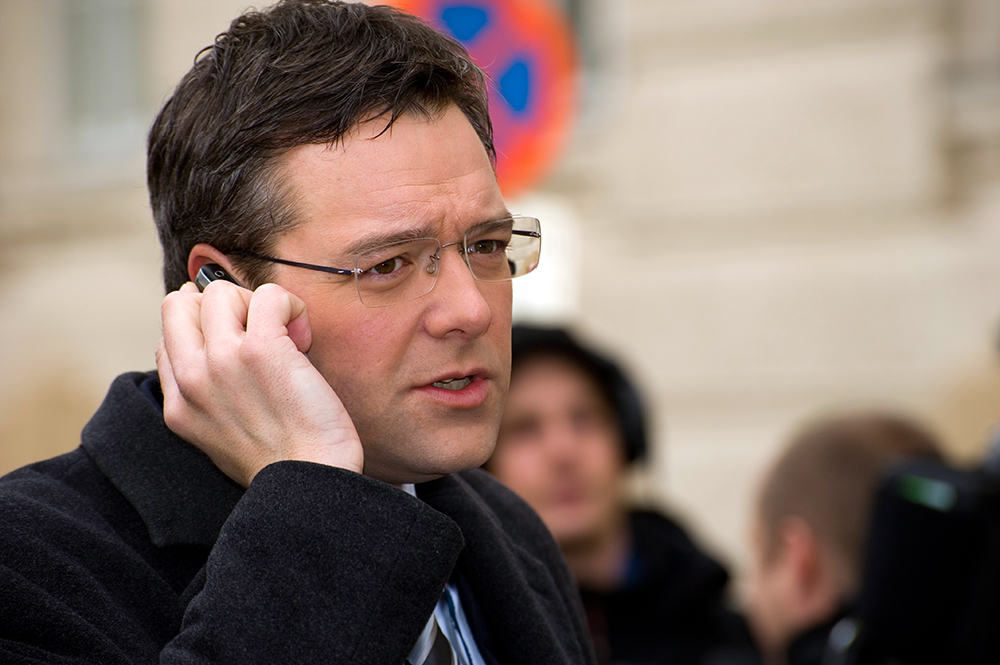 Carsten Hädler, German journalist, image created at Fritzl case